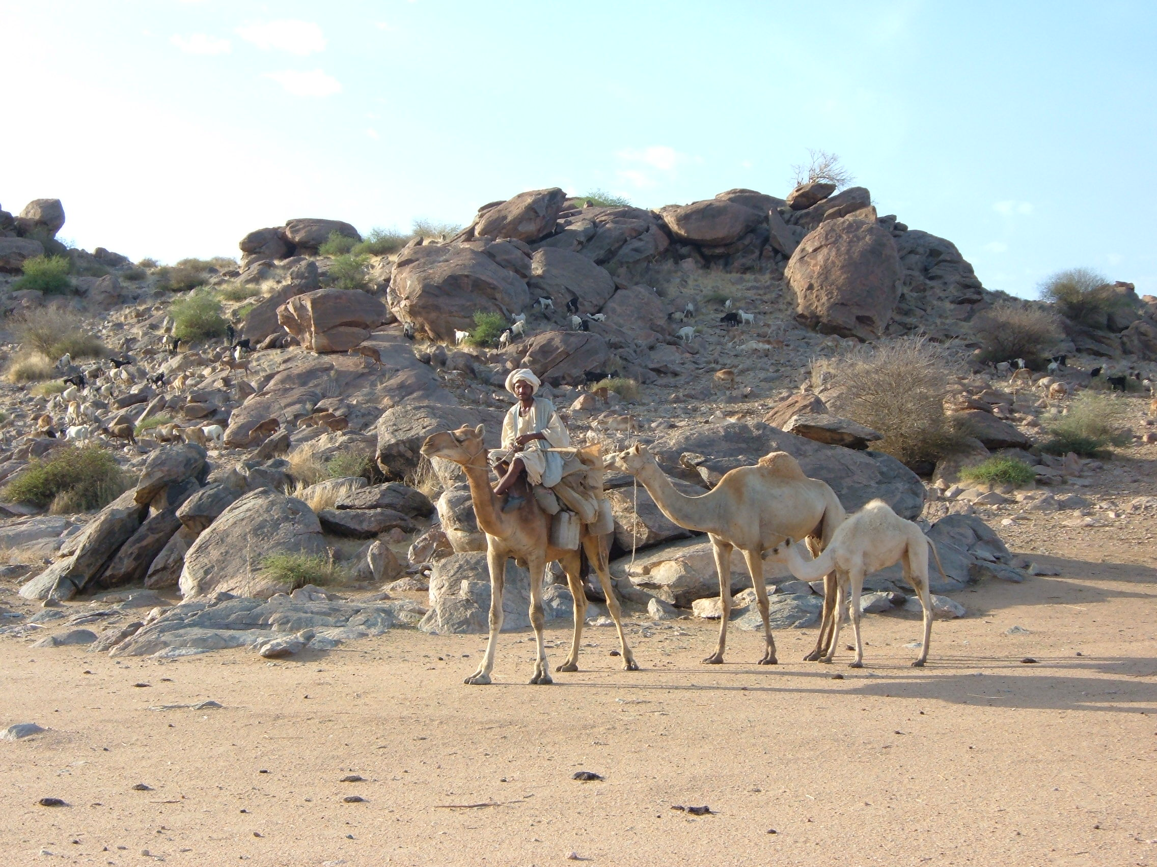 C.I.S.S. humanitarian tour to Sudan. This photo is part of a reportage made in Sudan for Wikinews